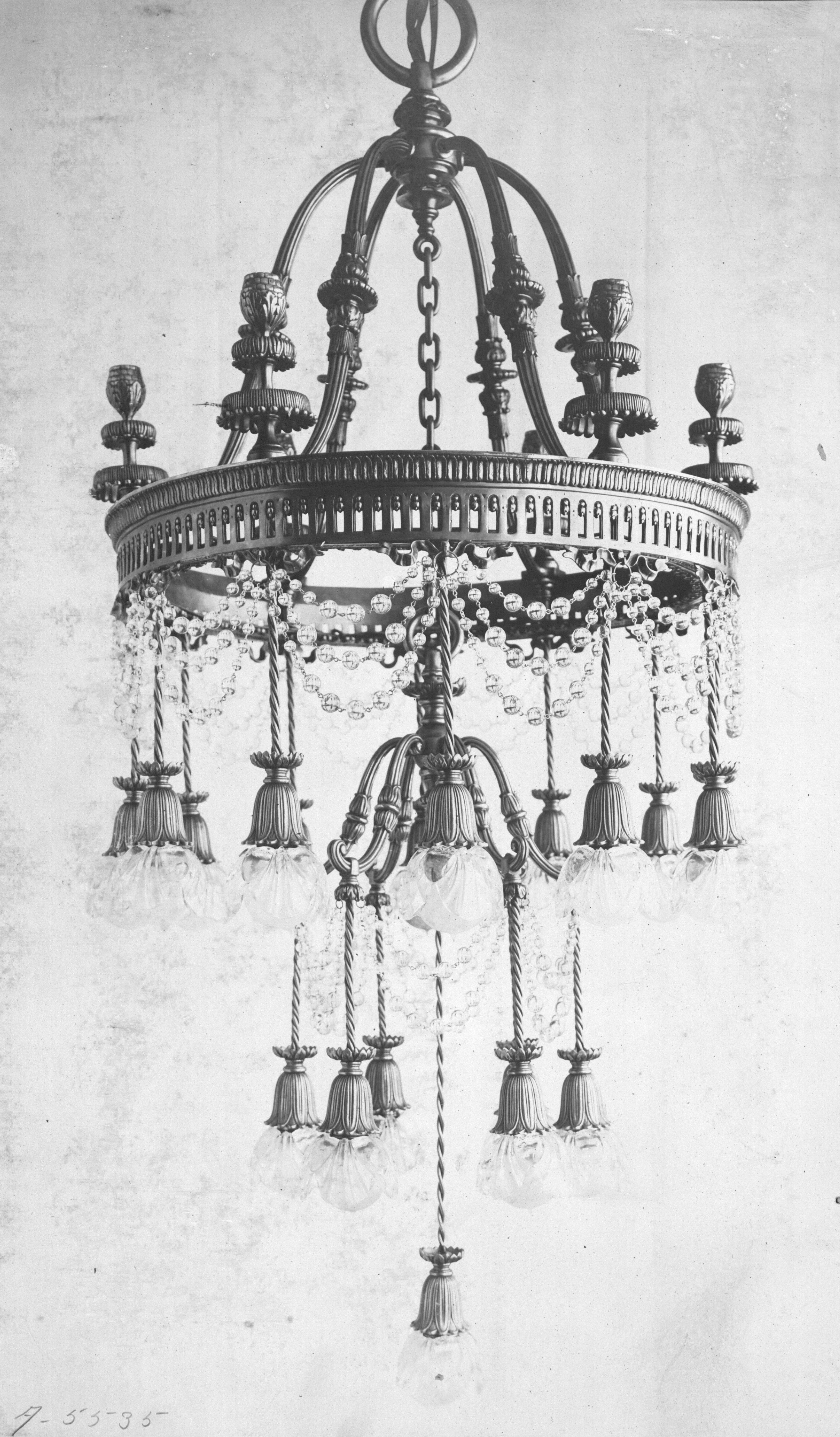 Description: This chandelier was produced by E. F. Caldwell & Co. for the Colony Club at 120 Madison Avenue, Manhattan, New York, NY 10016 by architects McKim, Mead, and White. Creator/Photographer: E. F. Caldwell & Co. Medium: Black and white photographic print Date: c. 1907 Persistent URL: Repository: Smithsonian Institution Libraries Collection: The E. F. Caldwell & Co. Collection - The E. F. Caldwell & Co. Collection contains more than 50,000 images consisting of approximately 37,000 black & white photographs and 13,000 original design drawings of lighting fixtures and other fine metal objects that the produced from the late 19th to the mid-20th centuries. Accession number: LB032029-a.jpg